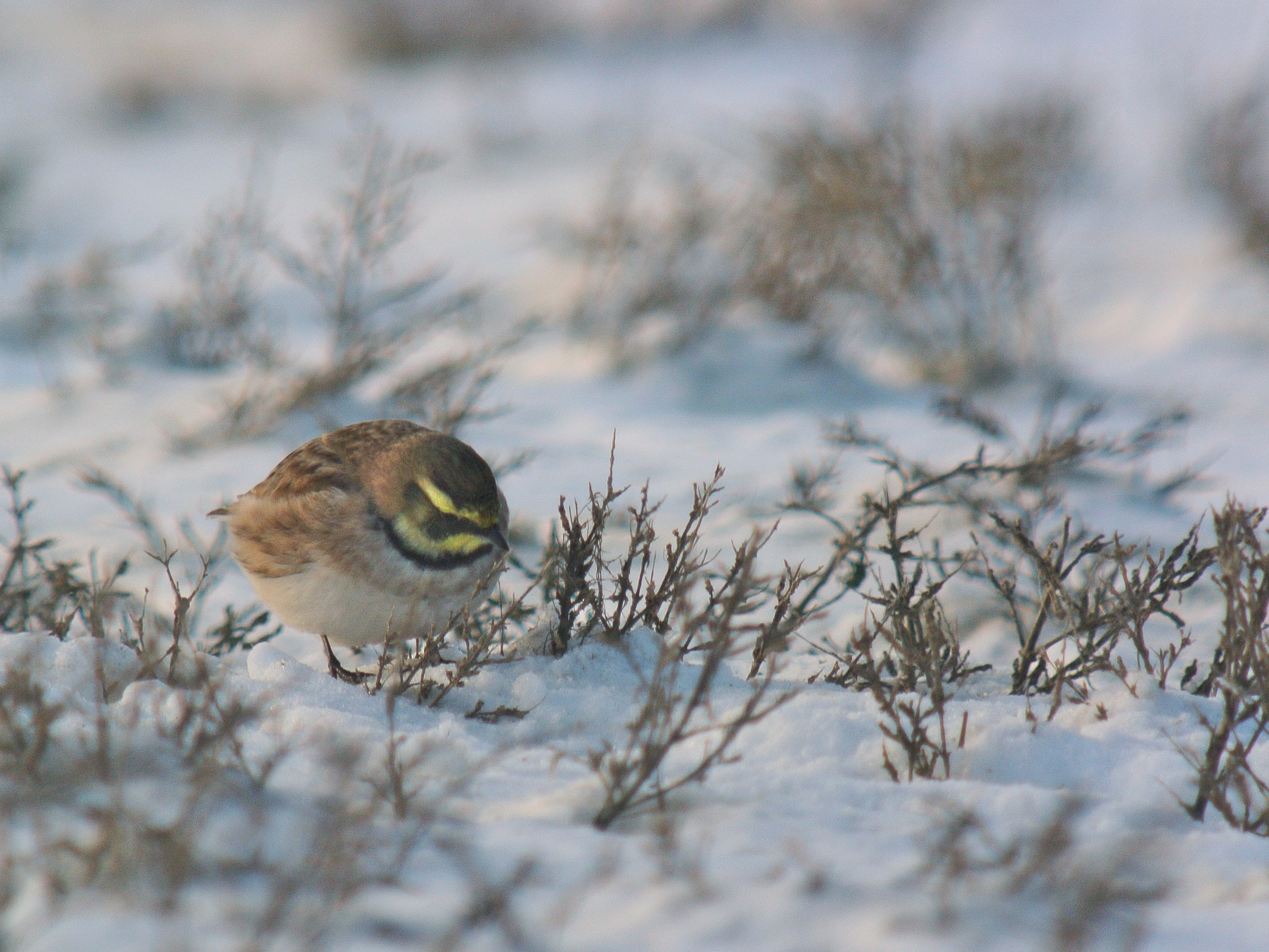 Shore Lark Eremophila alpestris flava, Kwade Hoek, Netherlands